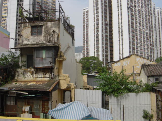 香港市區唯一仍保留的圍村－－衙前圍村，衙前圍村景象(2)。Nga Tsin Wai Tsuen, last walled villages left in the urban built-up areas of Hong Kong.